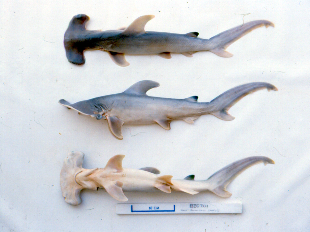 Great hammerhead (Sphyrna mokarran) embryos